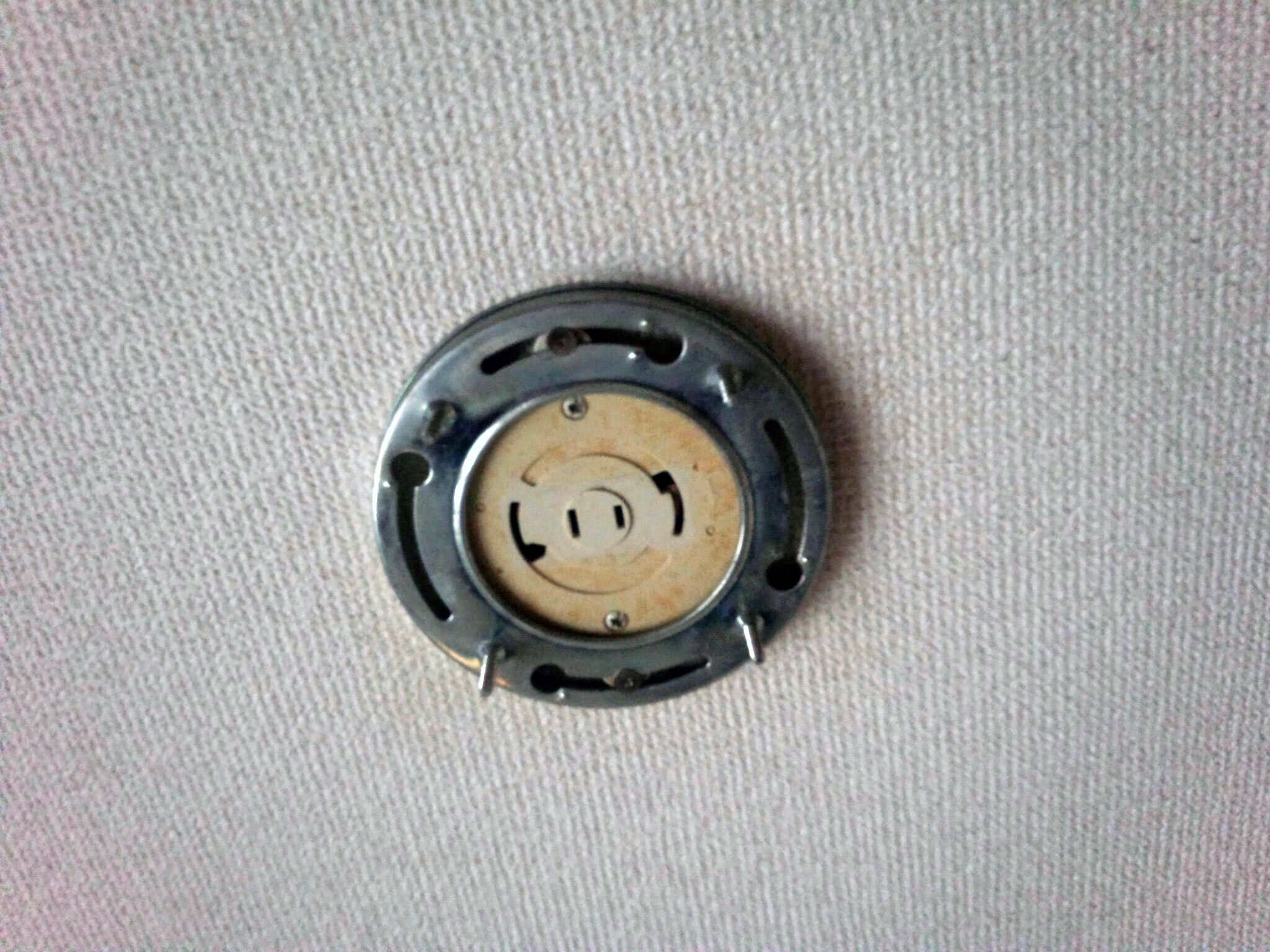 Japanese Ceiling Rosette Hanger